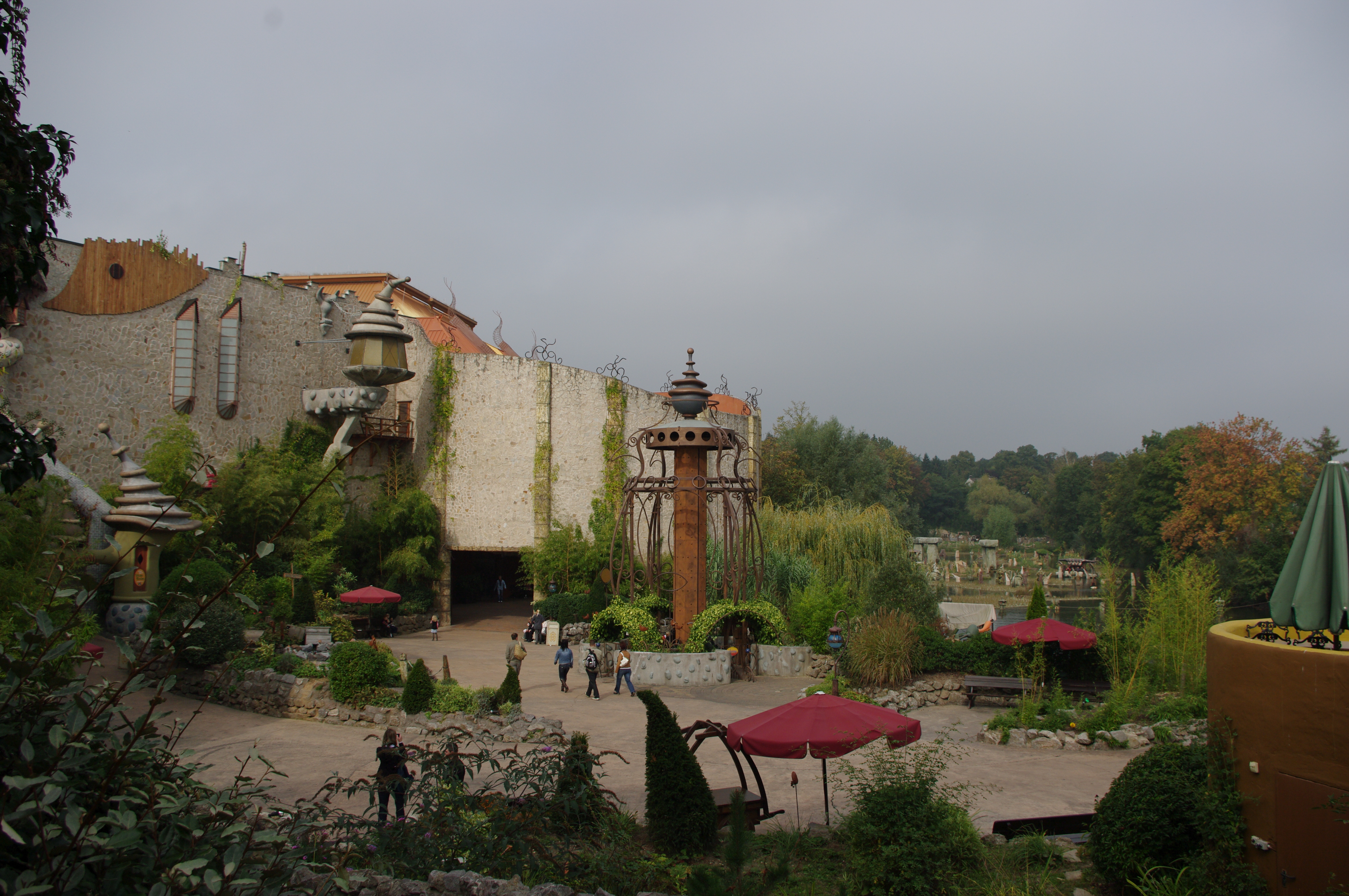 The Fantasy realm in Phantasialand